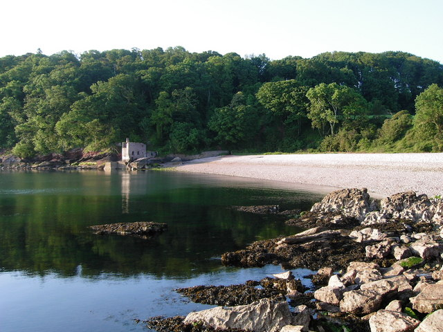 Elberry Cove in June The tranquility of Elberry Cove seemed sublime very early in the morning on this day in June 2005 and seemed to complement the imperceptibly slow decay of the old stone buildings.